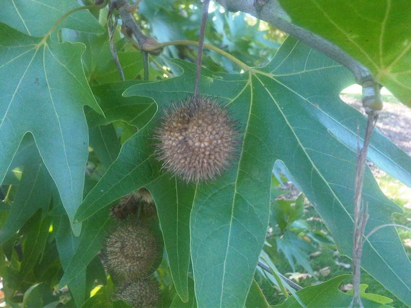 Oriental plane (Platanus orientalis) fruits and leaves in Kew Gardens, England.